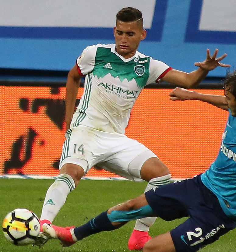 Ravanelli Ferreira dos Santos with FC Akhmat Grozny in a game against FC Zenit St. Petersburg.